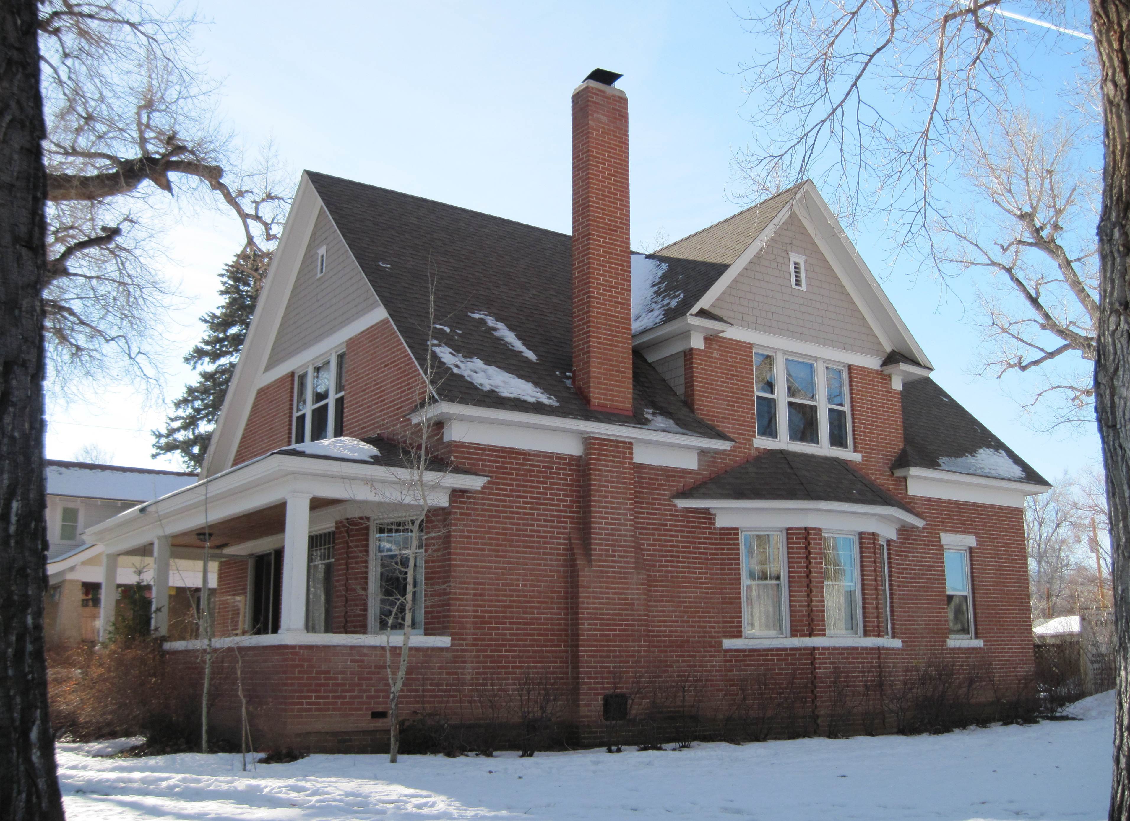 Residence in the Jackson Park Town Site Addition Brick Row. 615 South Third Street, Lander, Wyoming. Northeast elevation.